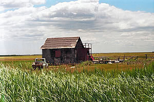 Long Beach Island "Happy Days" Shack in 1985